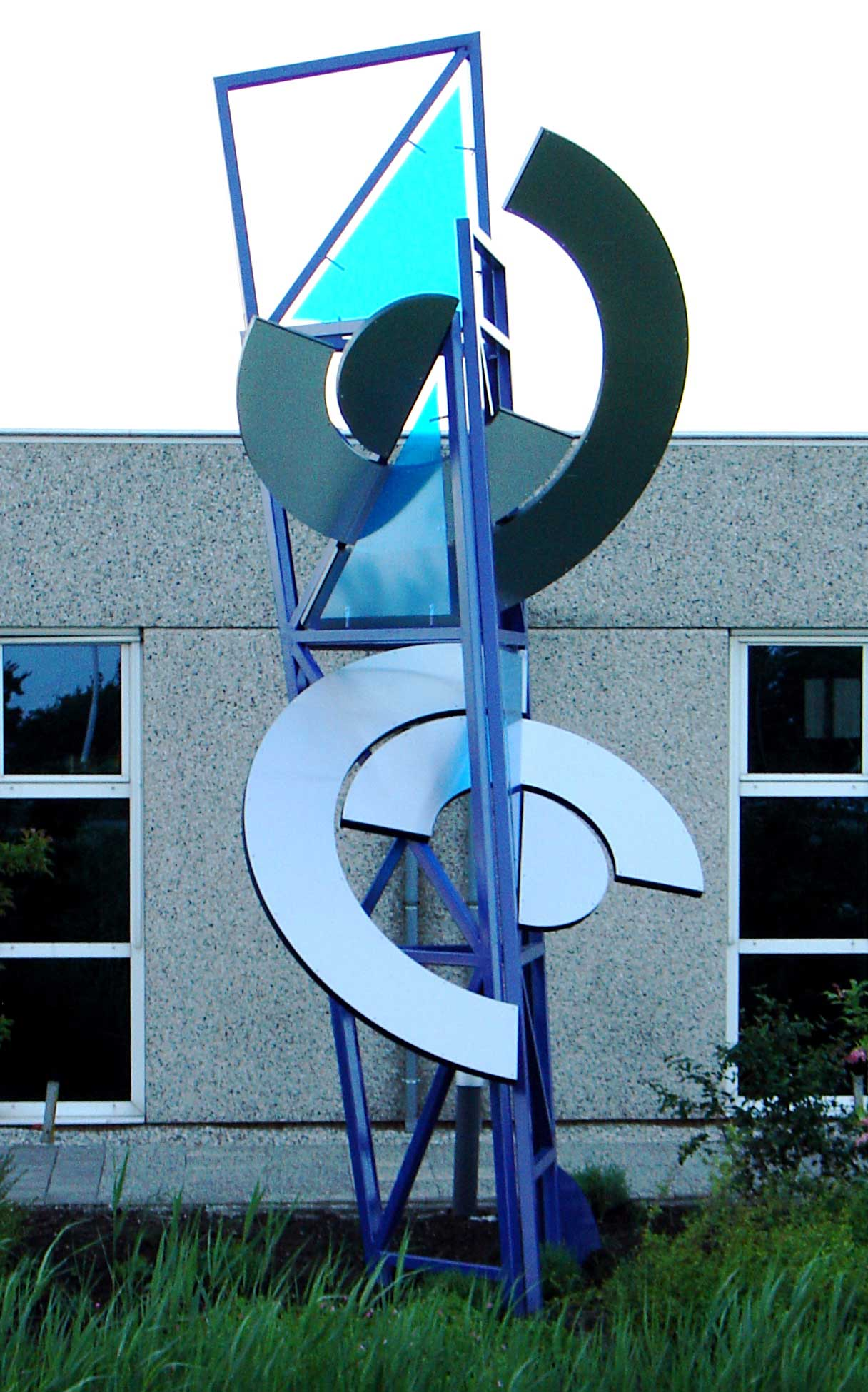 Object made by Dick Hoogendoorn near the building of Promen at the Zuider IJsseldijk, Gouda